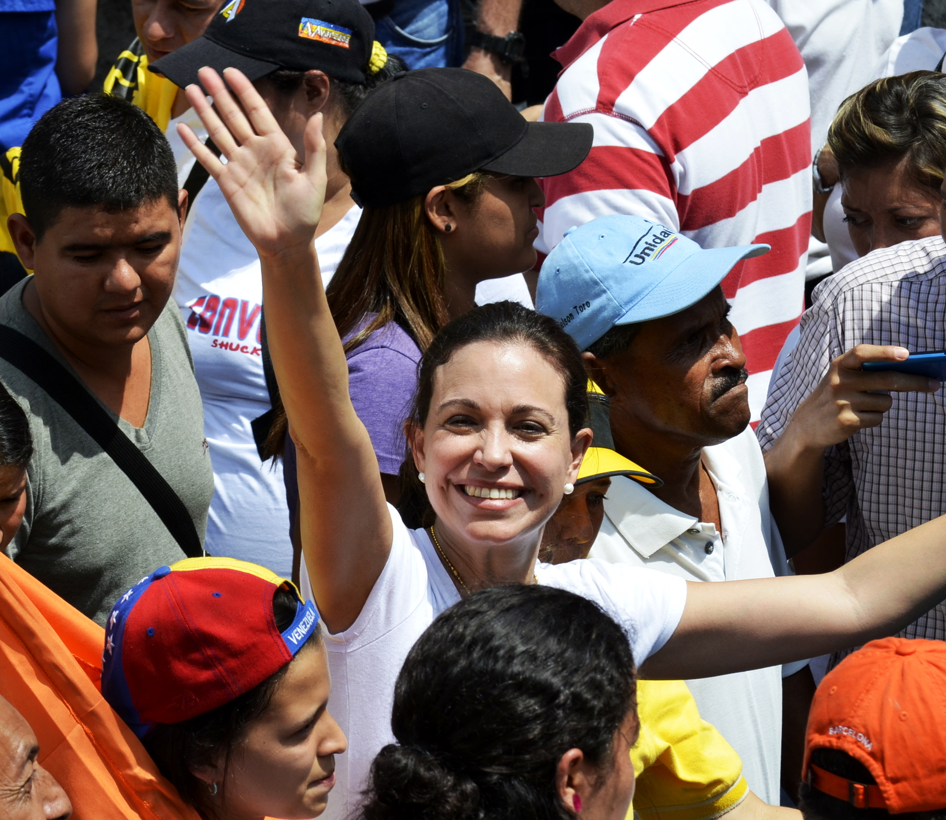 Maria Corina Machado attending the "Walk For Peace" march.